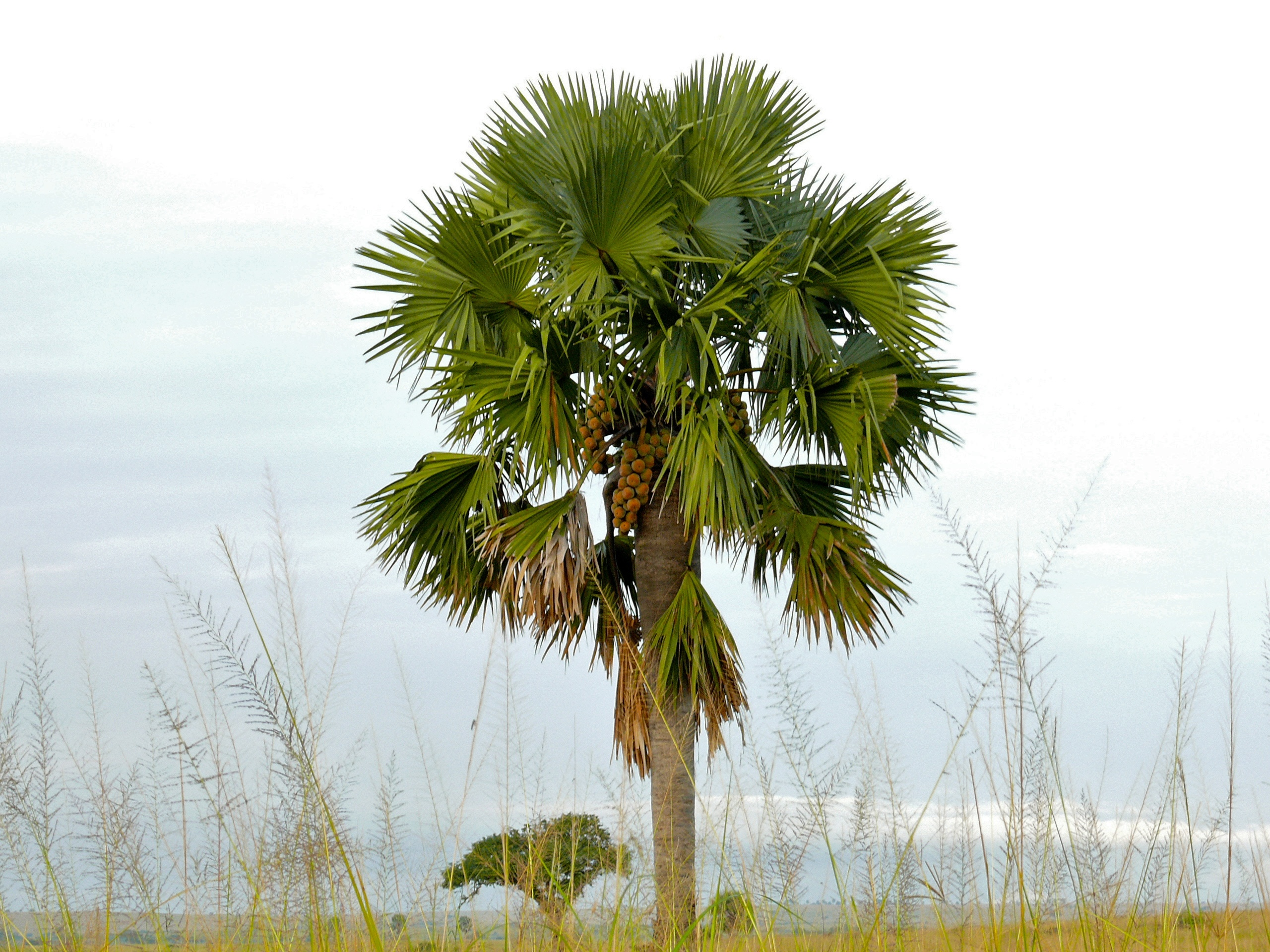 Murchison's Falls NP, UGANDA